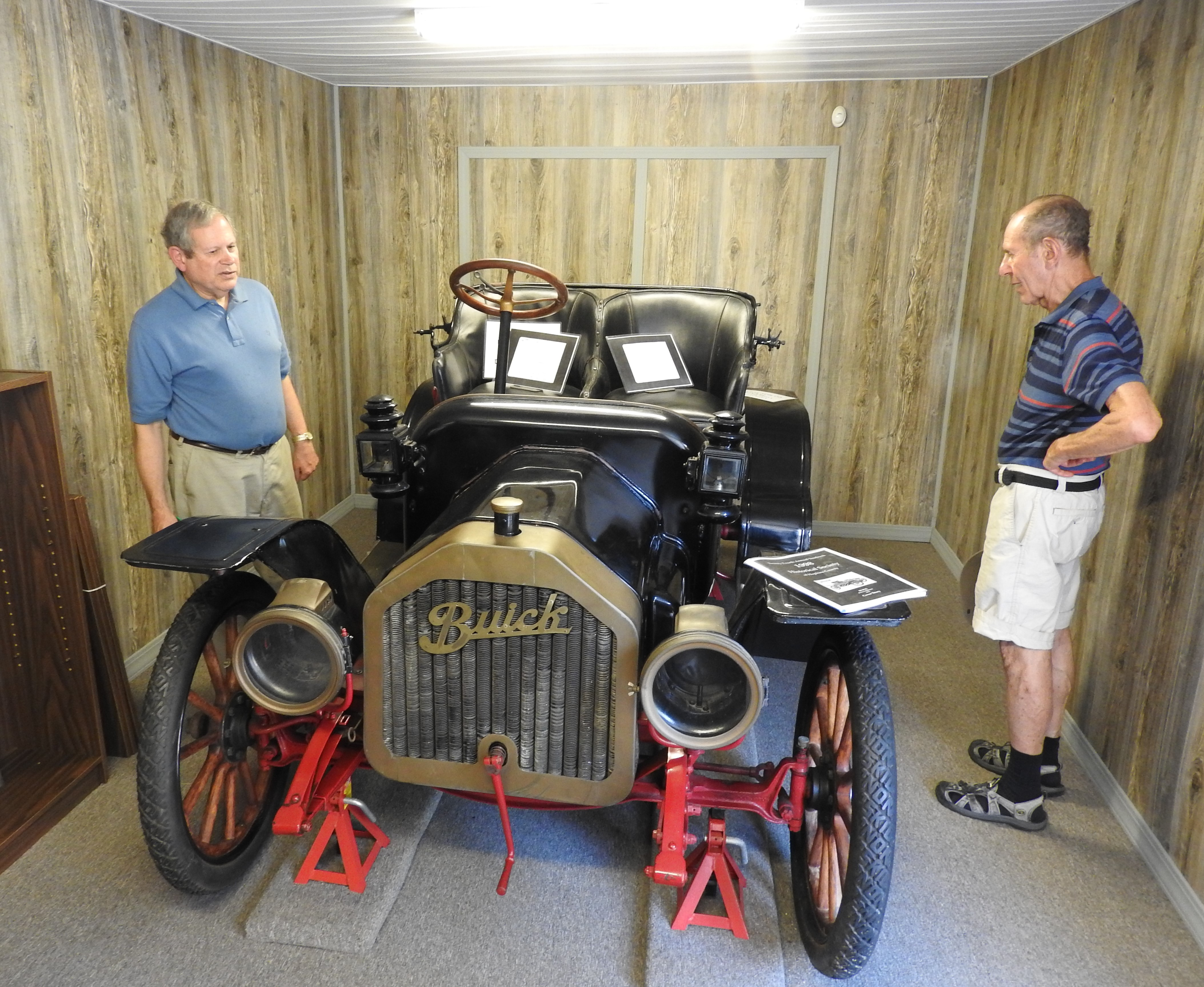 Buick in shed